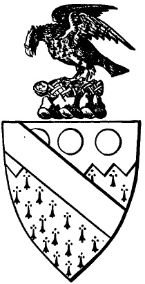 Latham of Bradwell coat of arms, described as "Erminois on a chief indented azure three bezants, over all a bend Gules. Crest: On a rock proper, an eagle with wings elevated Erminois preying on a child proper, swaddled Azure". Source: John Parsons Earwaker (1847–1895), The History of the Ancient Parish of Sandbach, Co. Chester including the two chapelries of Holmes Chapel and Goostrey from original records. (1890). The Stanley family was heir of the Lathoms and adopted the Lathom crest, to which is attached an ancient myth, see Collectanea topographica et genealogica, "On the Stanley Legend and Family of Lathom" )